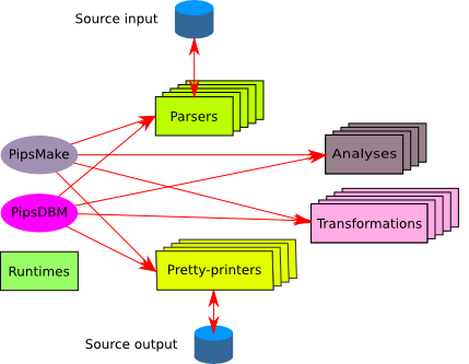 Structure de pips